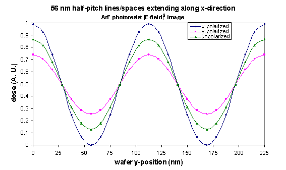 The electric field amplitude squared in a photoresist medium of index n=1.7. The interference resulting in 112 nm pitch lines and spaces necessarily entails a high angle of interference (~30°) for the 193 nm ArF wavelength.